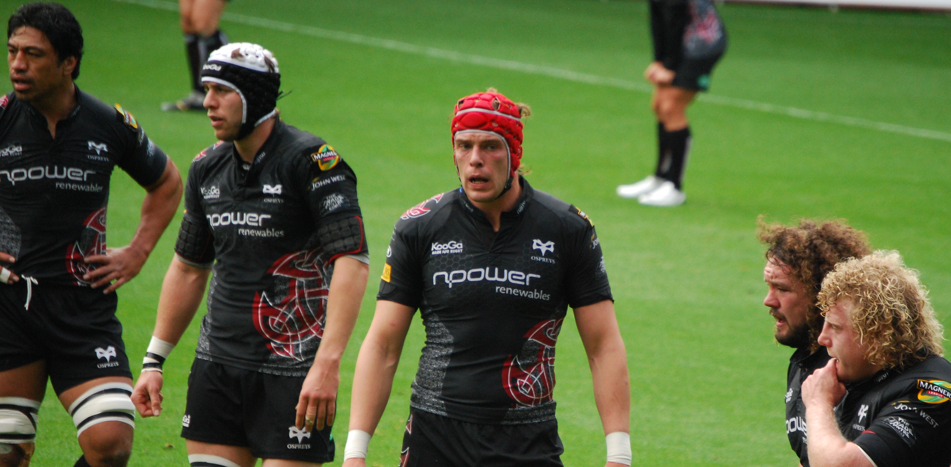 Group Game: 5 October 2008 First Round Pool Game: 5 October 2008. Result Ospreys 24 Harlequins 23. First Round Pool Game: 5 October 2008. Result Ospreys 24 Harlequins 23.